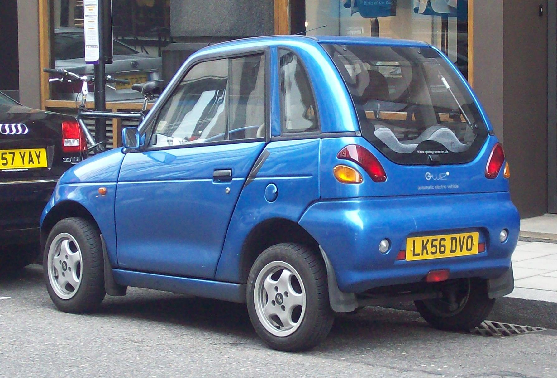 G-Wiz Electric Vehicle parked outside 37 Savile Row, London.